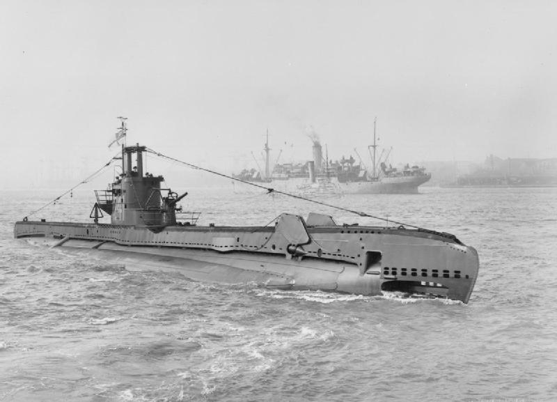 British S class submarine HMS Syrtis underway.